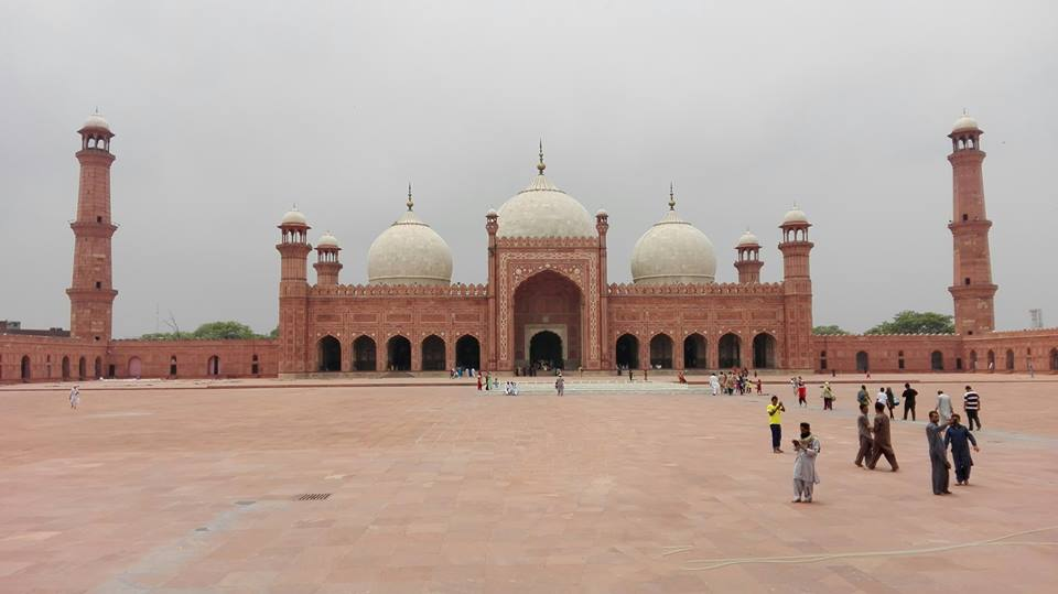 Badshahi Mosque (King’s Mosque) This is a photo of a monument in Pakistan identified as the PB-44